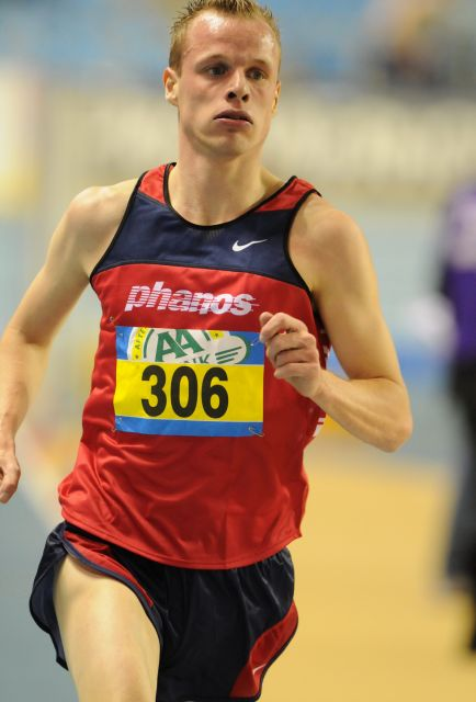 Dennis Licht during Dutch Indoorchampionship 2008 in Gent